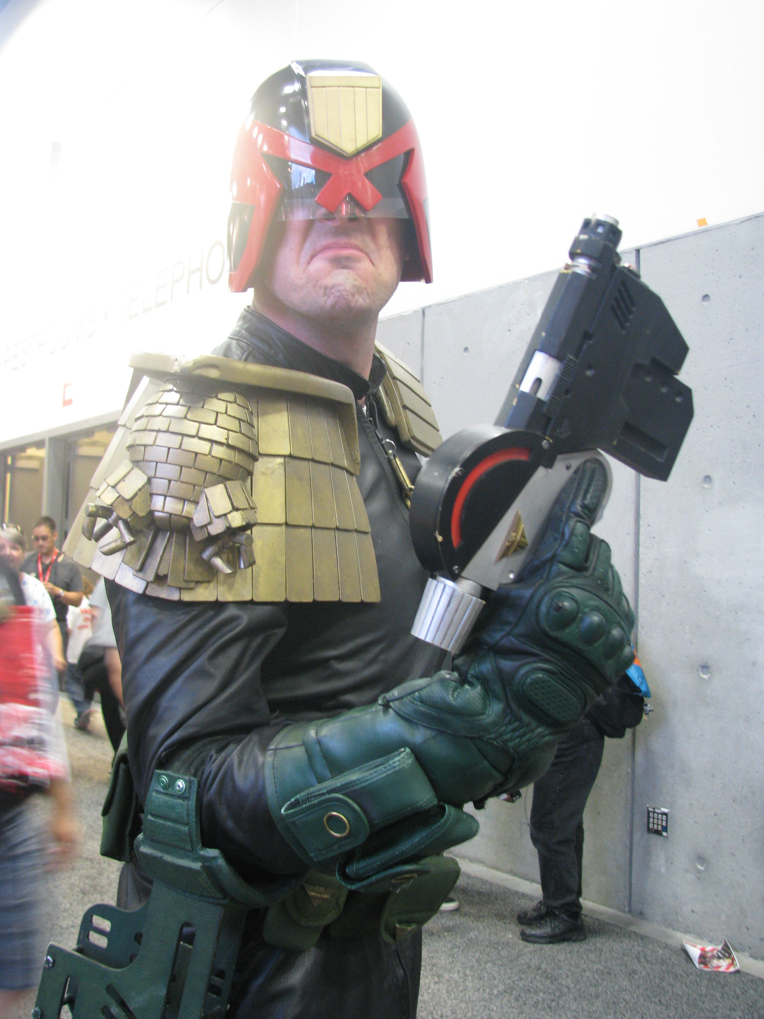 Cosplay at San Diego Comic Con (SDCC) 2011.